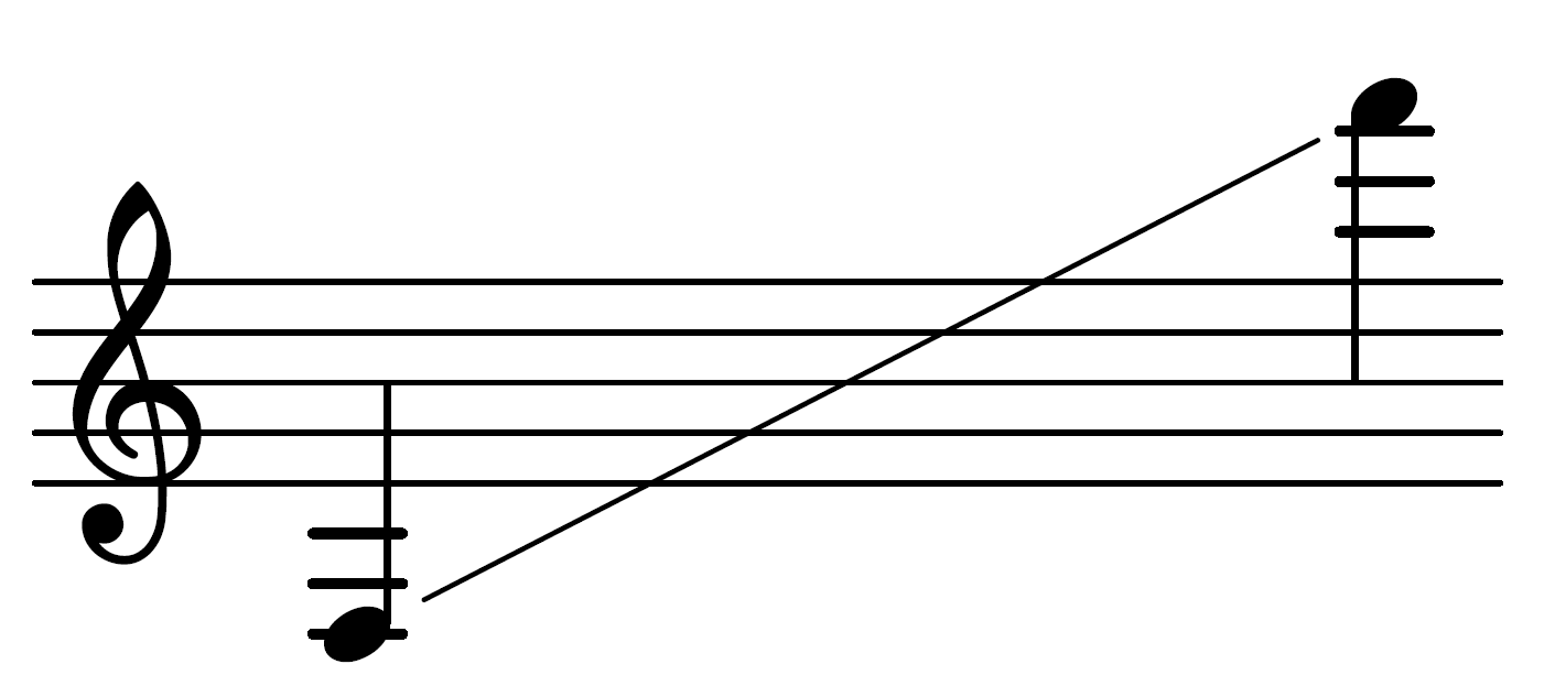 The standard range of the vibraphone (vibes)